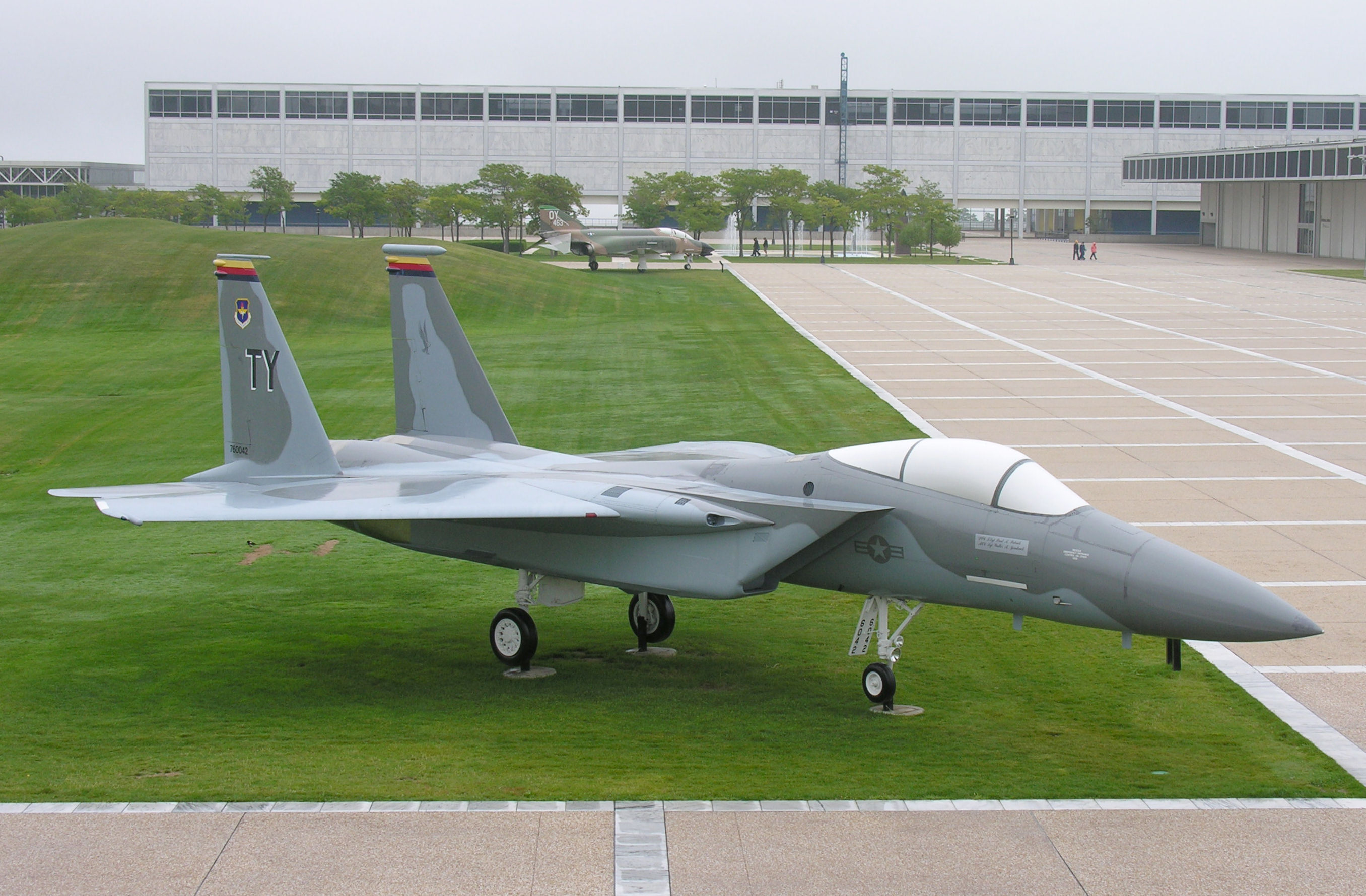 McDonnell Douglas F-15 Eagle, Air Force Academy, Colorado